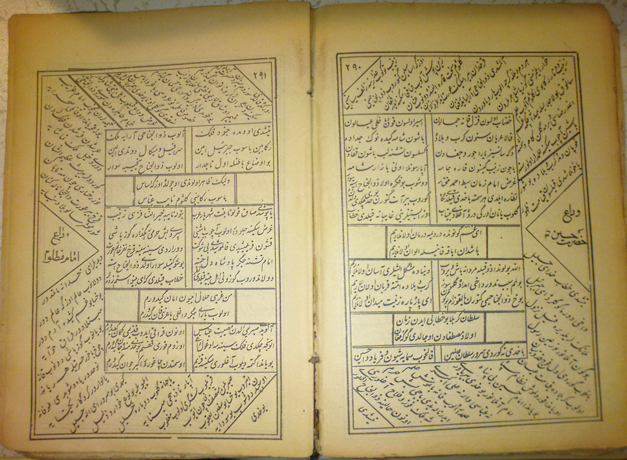 South Azeri Turks (in Iran) use the Arabic script